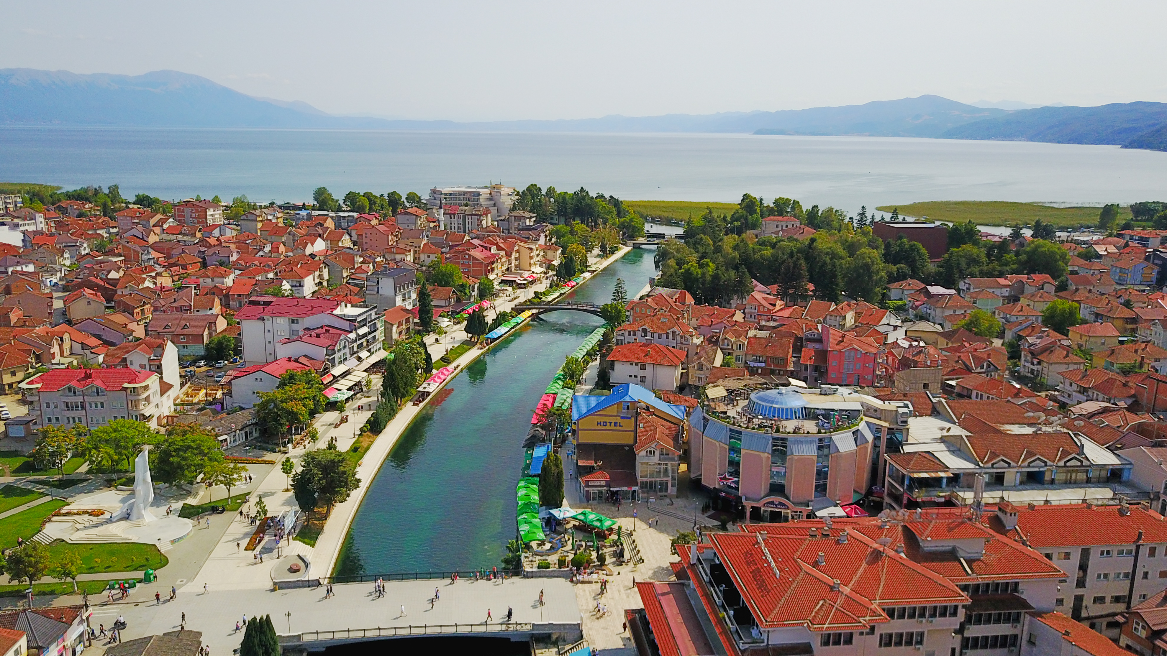 Aerial view of Struga, Black Drin and Lake Ohrid.